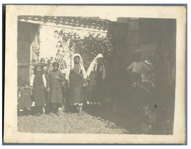 Peasants from Gnilezh.